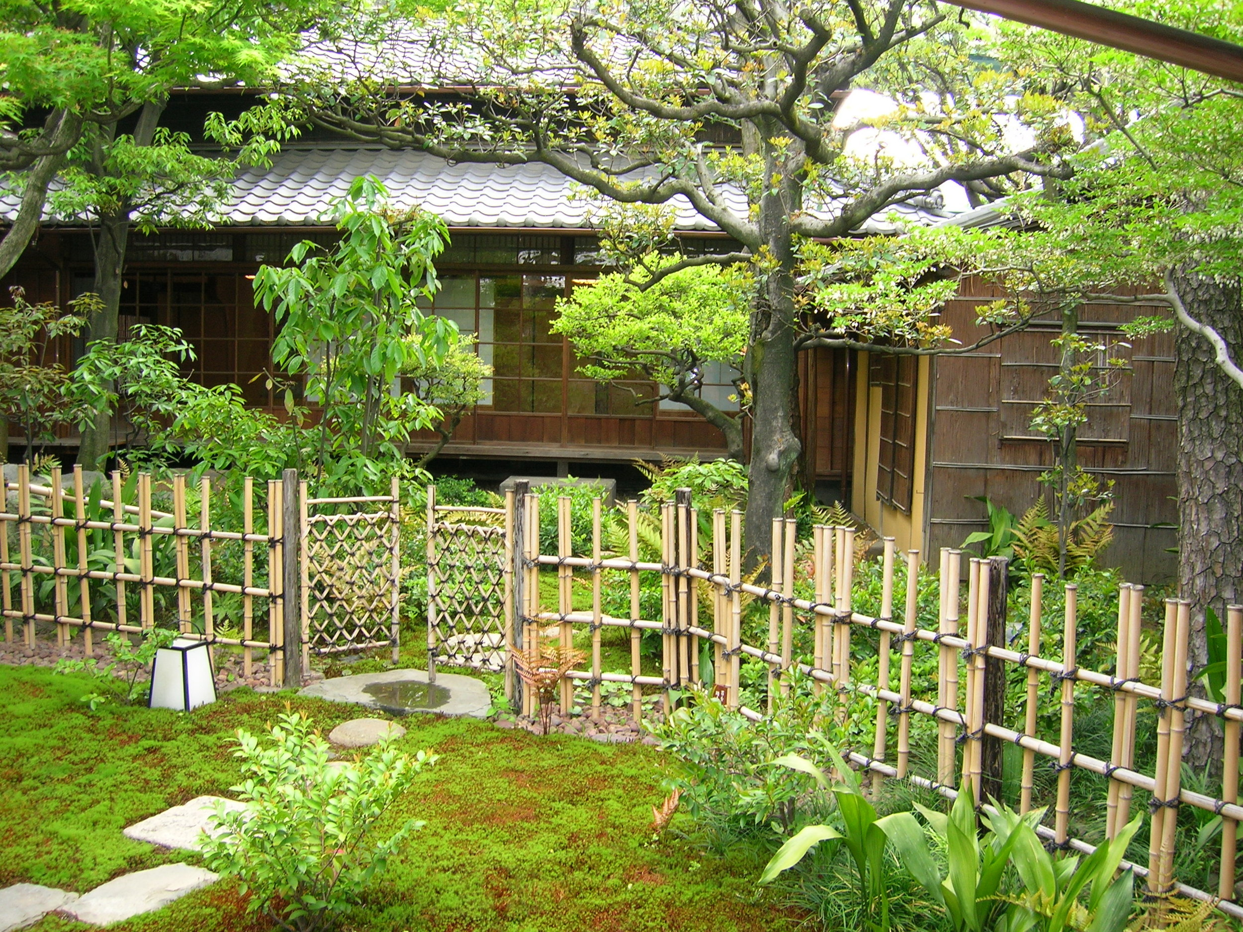 Shoin, Chashitsu(Tea house), and small garden. Loc: The Cultural Path "Hyakka Hyakuso", Higashi-ku, Nagoya city, Aichi Prefecture, Japan. 文化のみち百花百草、書院・茶室・茶庭 撮影場所 愛知県名古屋市東区